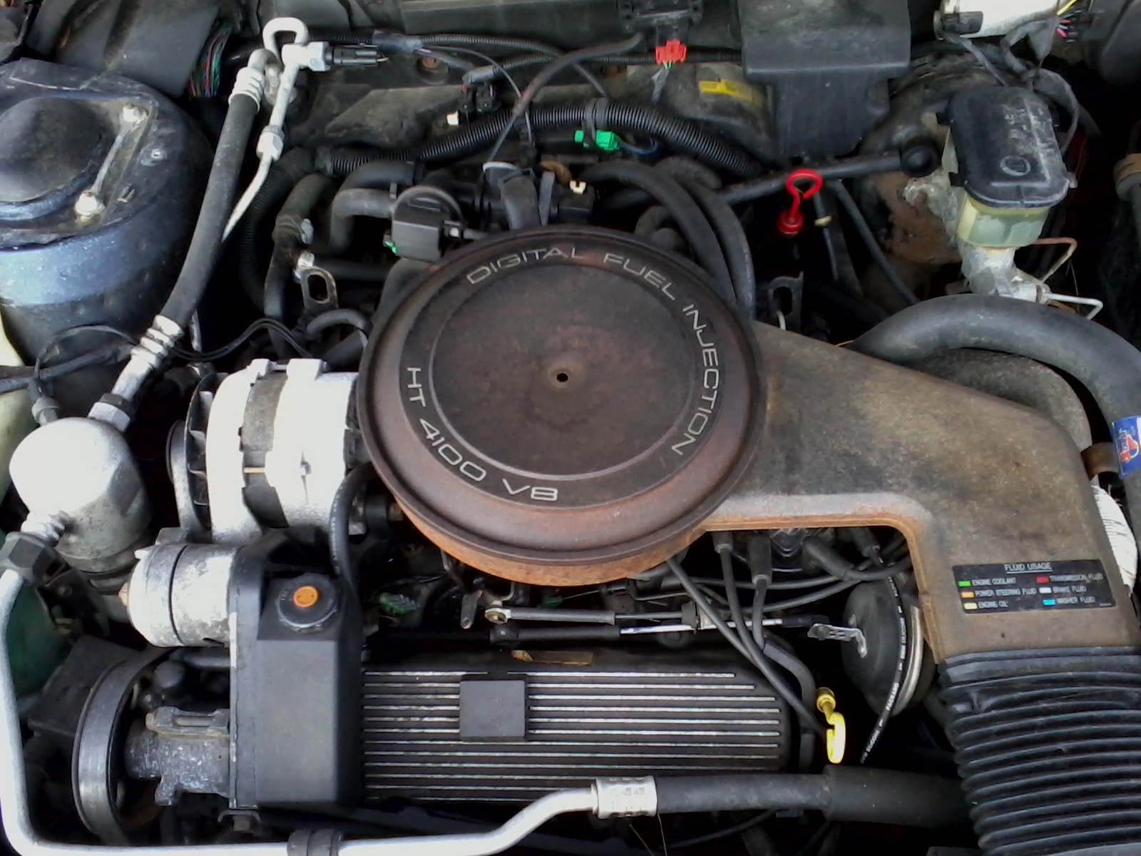 1987 Cadillac DeVille 4.1 L OHV V8 engine VIN 1G6CD1189H4305886